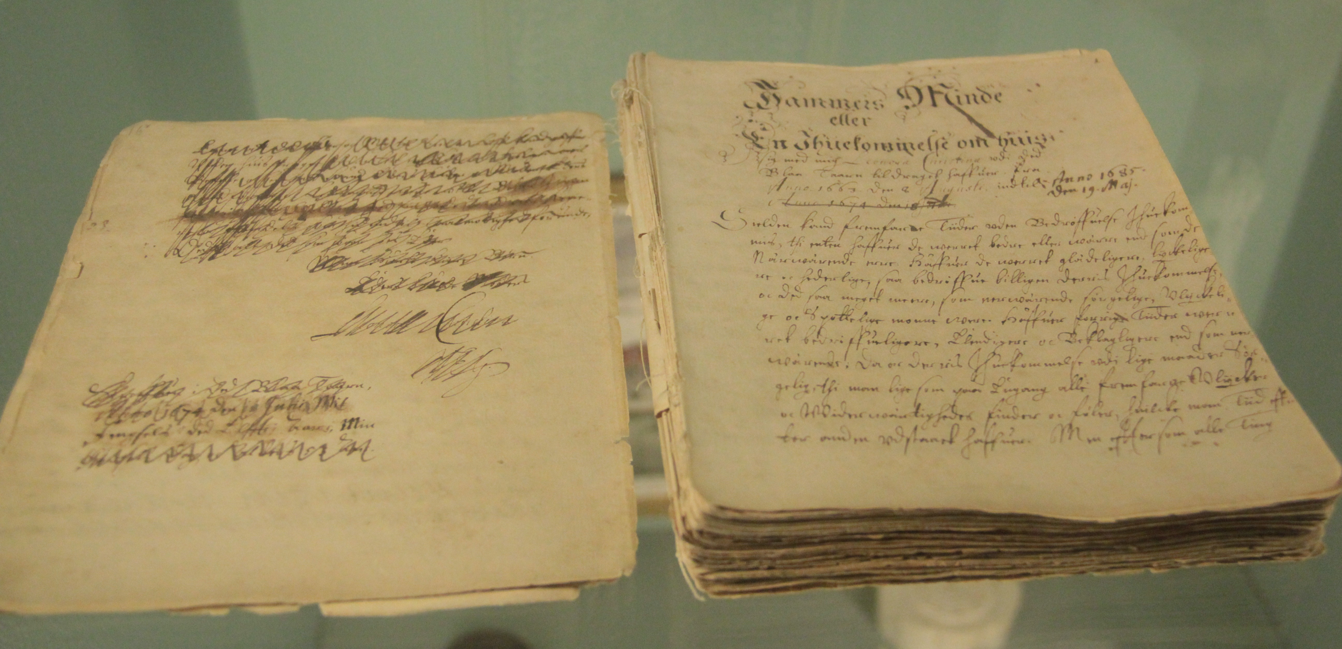 Jammers Minde manuscript by Leonora Chrinstina